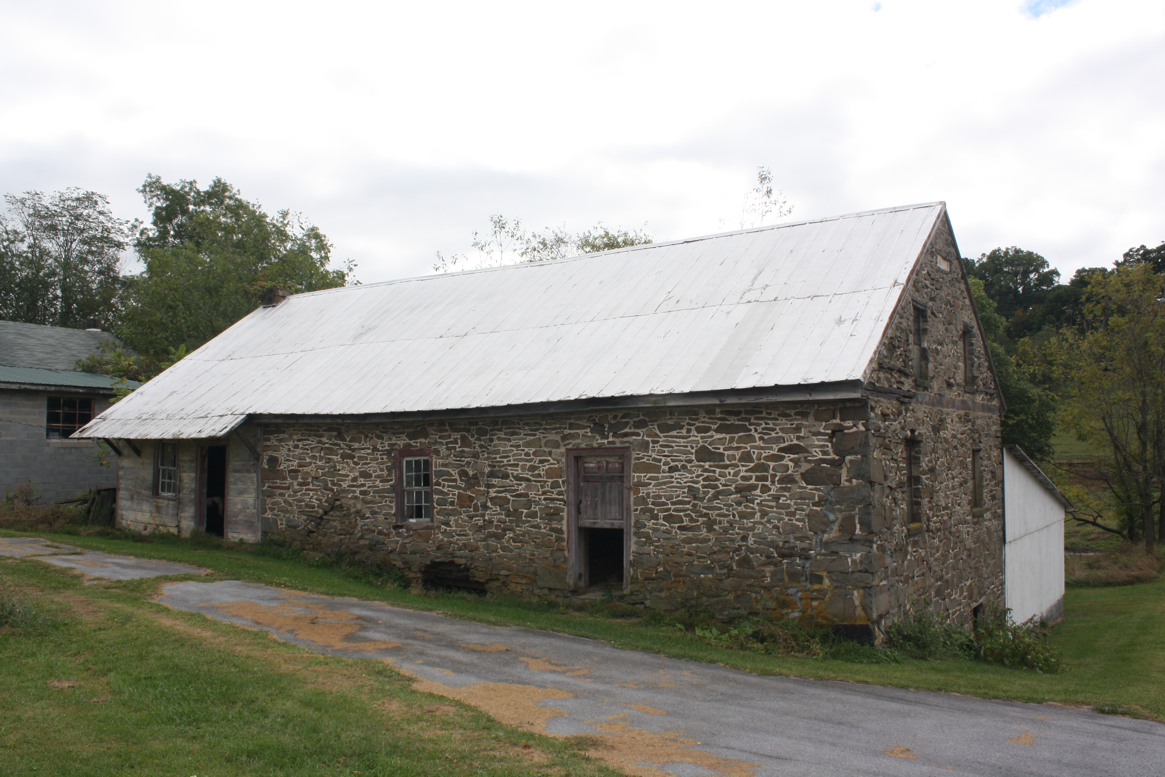 Kauffman Mill, also known as Spengler Mill, is a historic grist mill located in Upper Bern Township, Berks County, Pennsylvania.